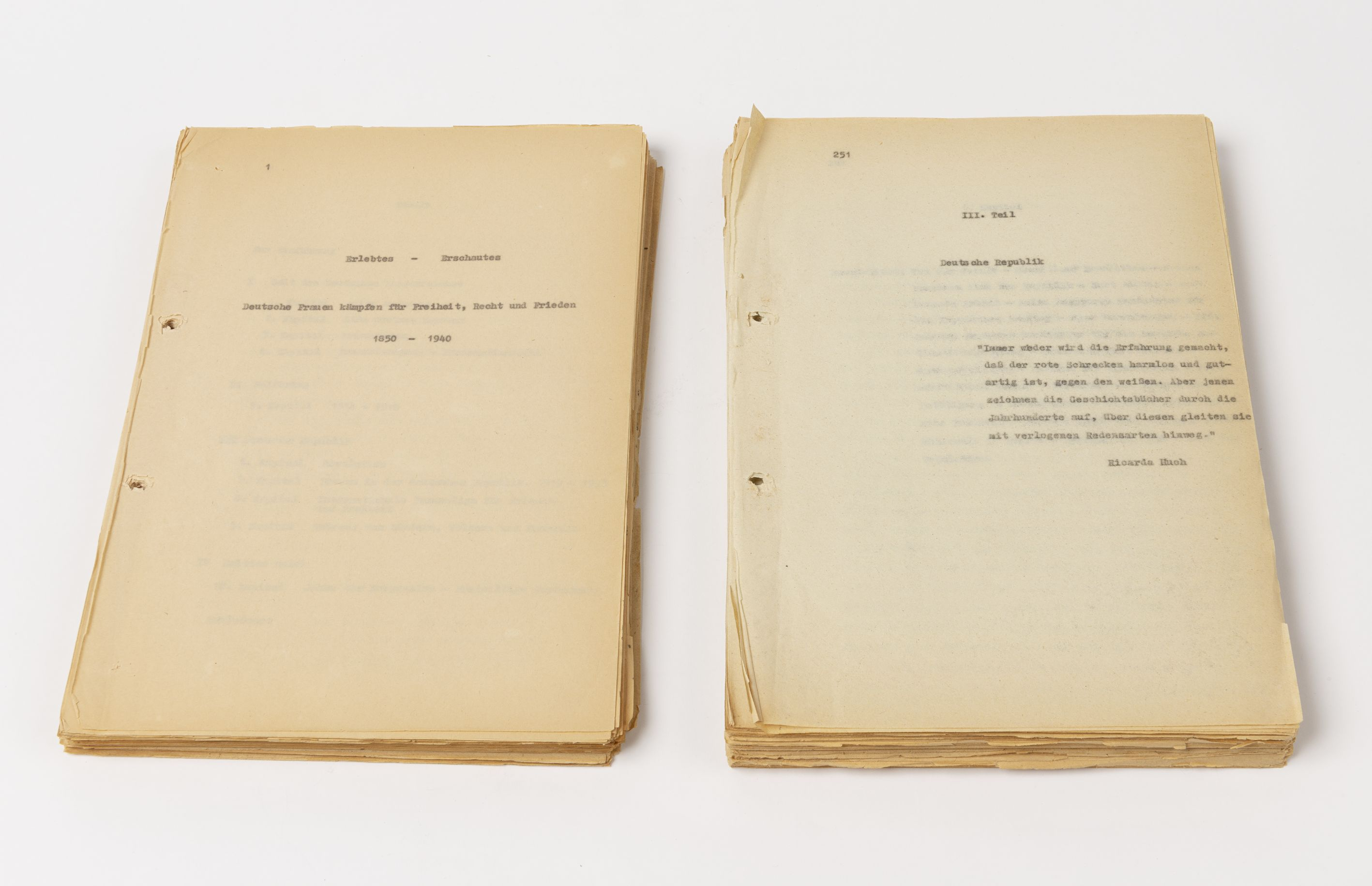 Manuscript of memoirs of Anita Augspurg and Lida Gustava Heymann: "Erlebtes – Erschautes! Teile 1 u. 2", typoscript, carbons; dating on p. 497: We write the beginning of 1941. Photo of manuscript in repository of Archiv der deutschen Frauenbewegung (Archive of German Women's Movement), Kassel, Signature NL-K-18. Photographer: Horst Ziegenfusz on behalf of Historisches Museum Frankfurt (Historical Museum Frankfurt). Published in Dorothee Linnemann (ed.): Damenwahl! 100 Jahre Frauenwahlrecht. Begleitbuch zur Ausstellung. Societäts-Verlag, Frankfurt am Main 2018, ISBN 978-3-95542-306-3, p. 228.